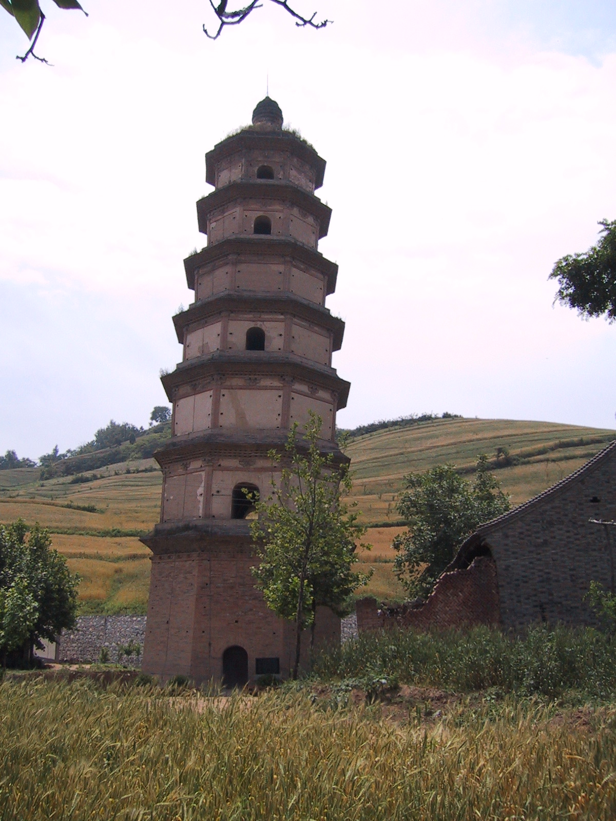 Da Qin Pagoda. May 2003.